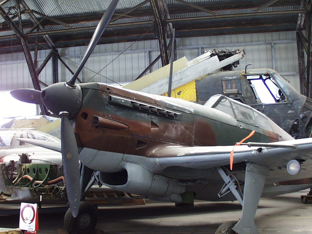 the Morane-Saulnier D.3801 preserved at Le Bourget